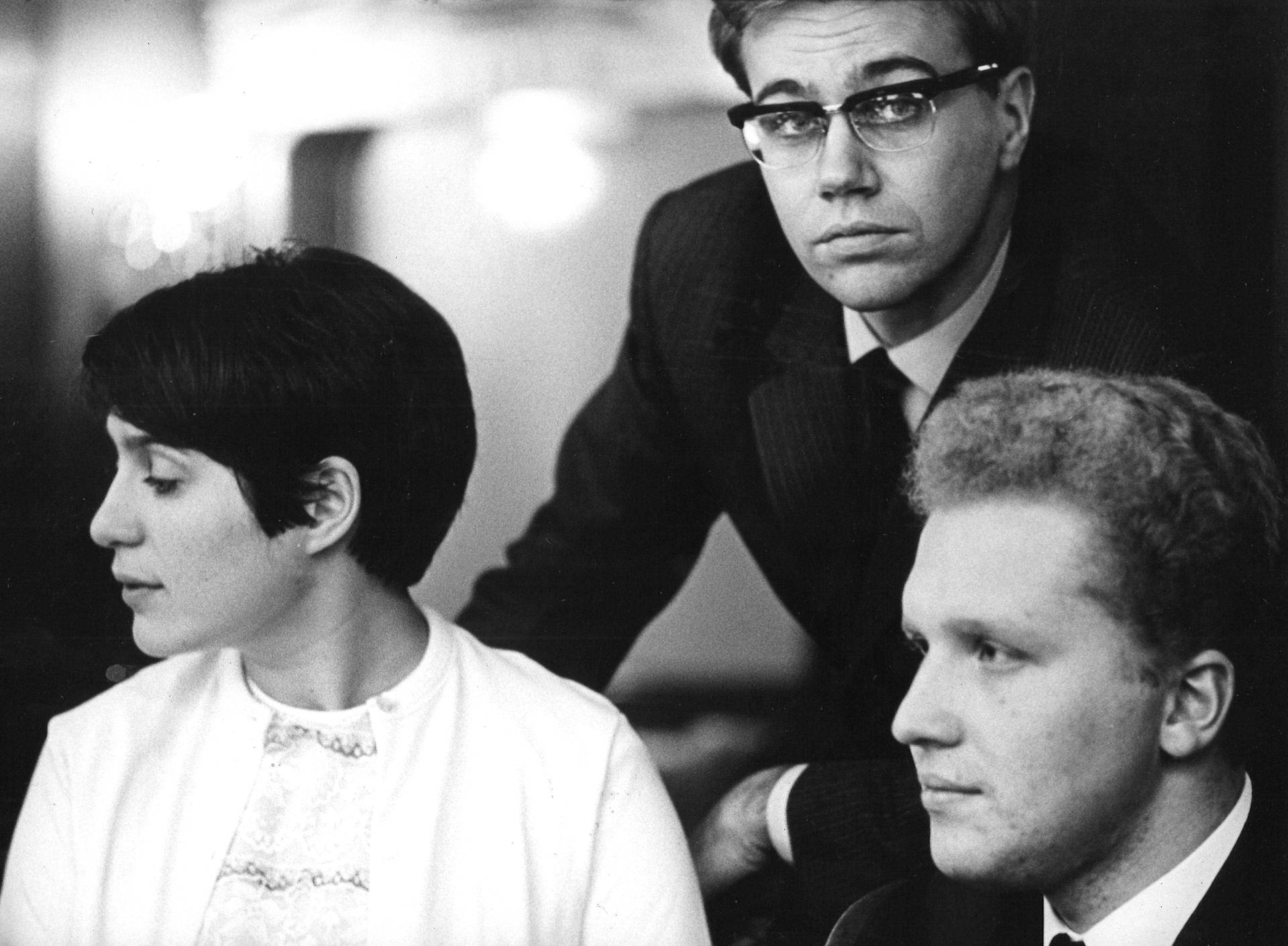 Photograph of the Russian pianist Elisabeth Leonskaja (1945–), Finnish cellist Arto Noras (1942–) and Russian violinist Oleg Kagan (1946–1990). They toured Finland as a trio.